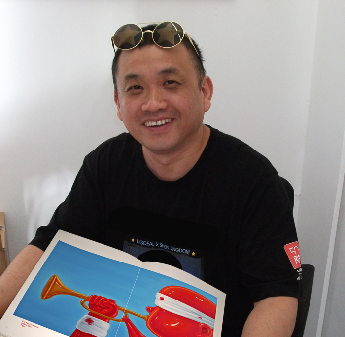 Shen Jingdong 沈敬东 Exhibition Bugle 号手